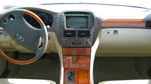 LS 430 forward cabin, edited version of photo using mirror image replacement, photoshop